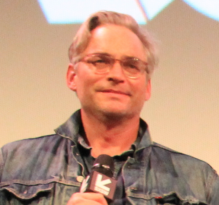 Stuber Q&A - Michael Dowse, Dave Bautista and Kumail Nanjiani